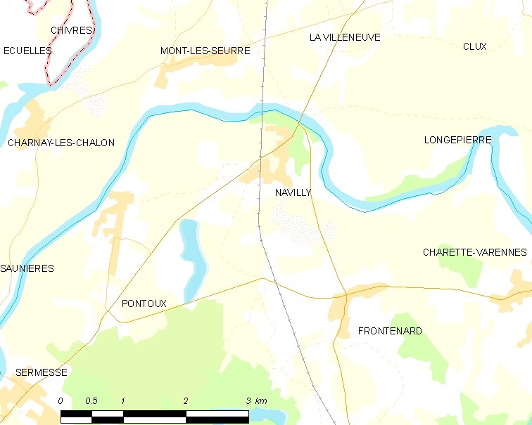 Map of French municipality